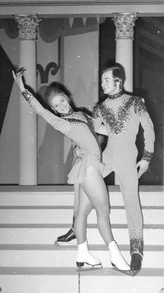 World ice dance champions Diane Towler & Bernard Ford